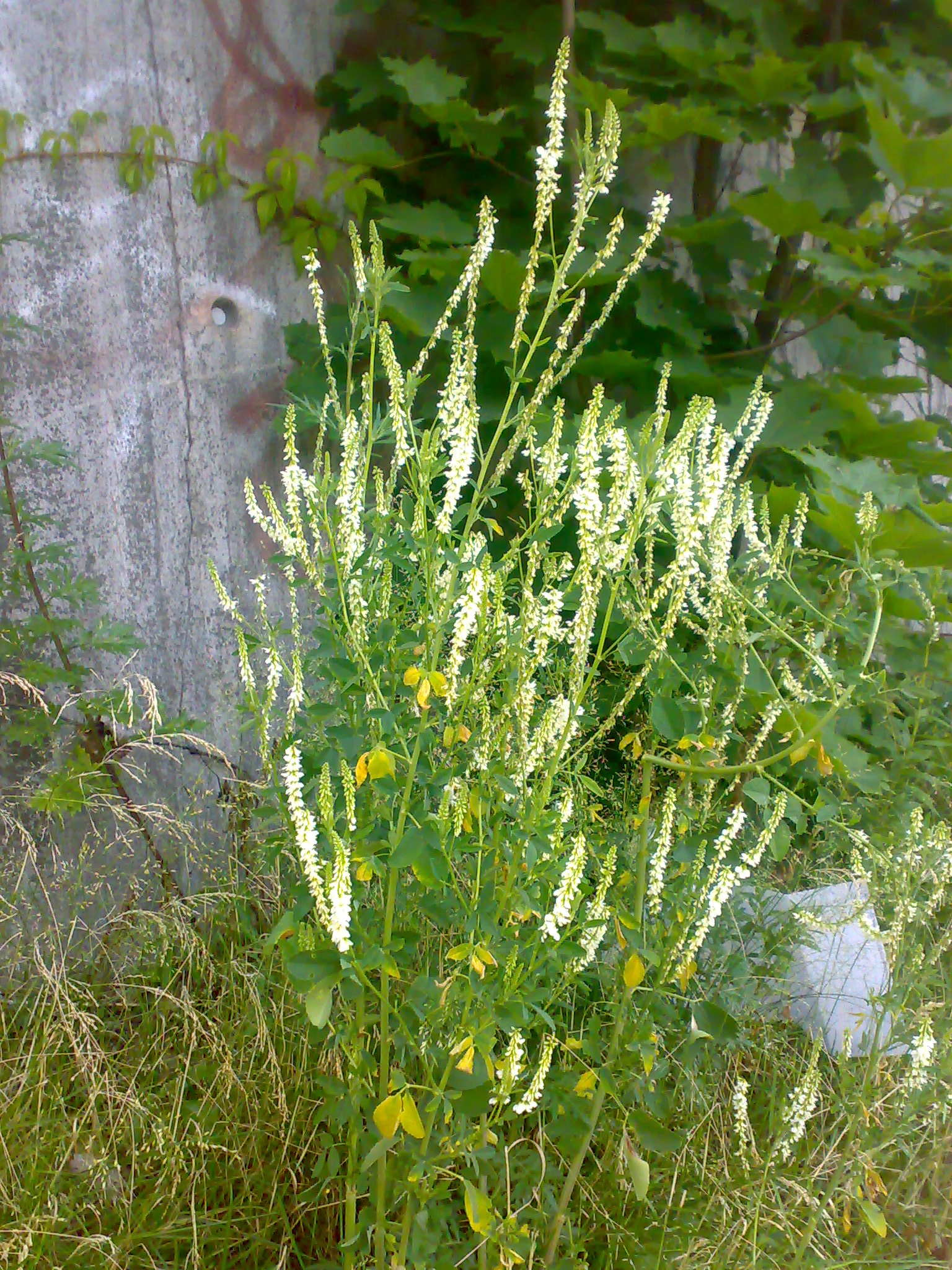 Melilotus alba